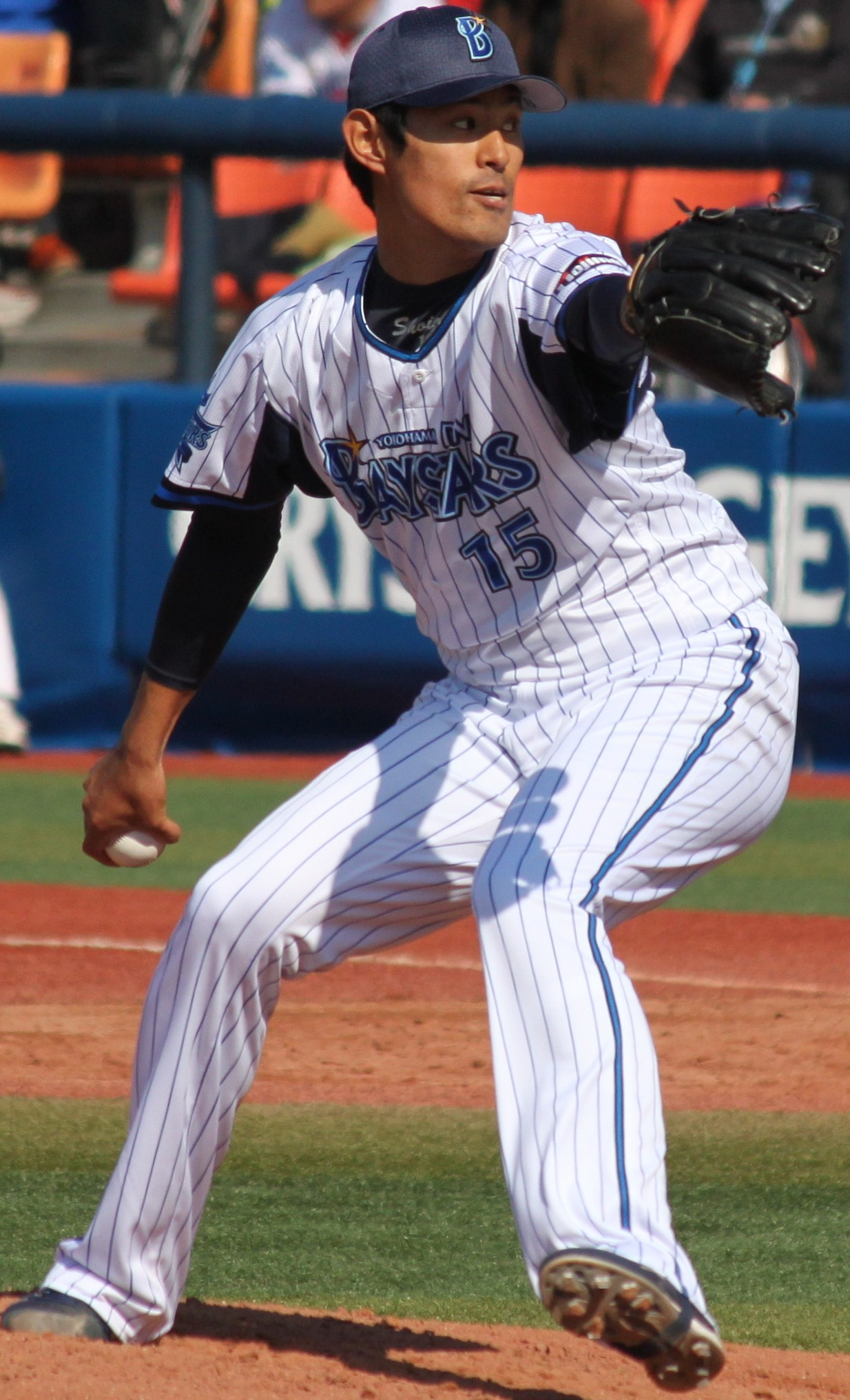 Shoichi Inoh, pitcher of the Yokohama DeNA BayStars, at Yokohama Stadium.